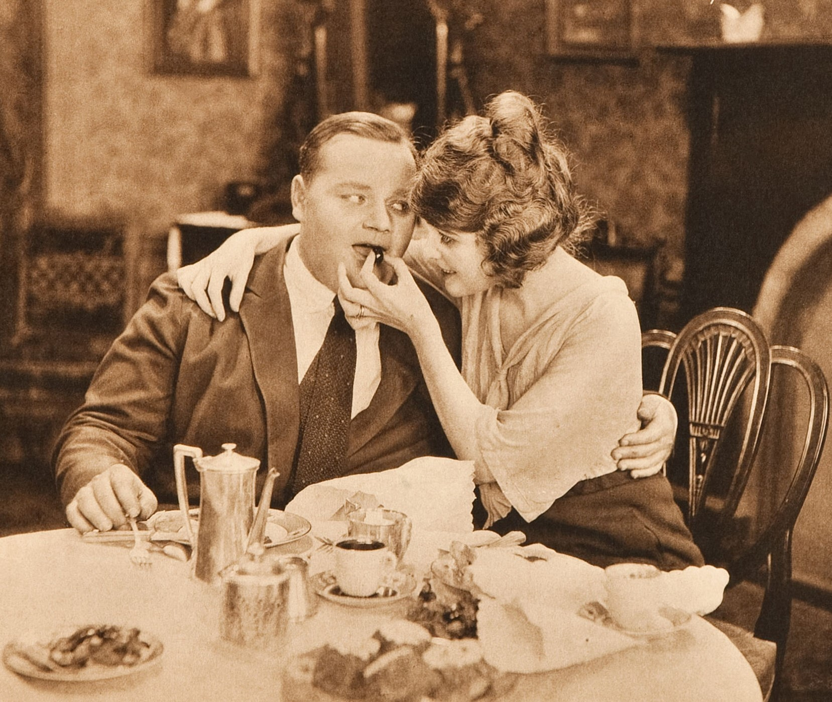 Roscoe "Fatty" Arbuckle & Betty Ross Clarke in Brewster's Millions (1921) - publicity still (cropped)